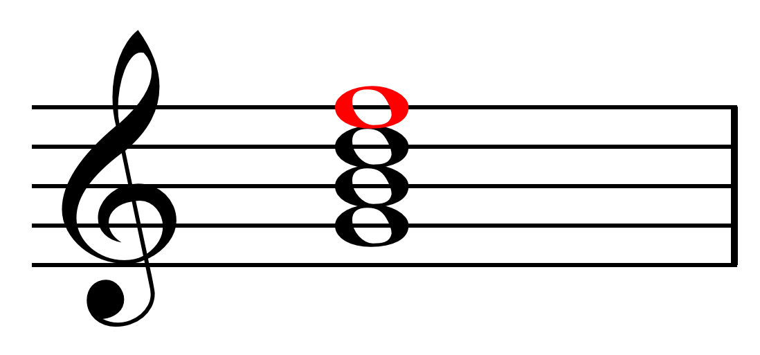 Seventh of a dominant seventh chord in C.